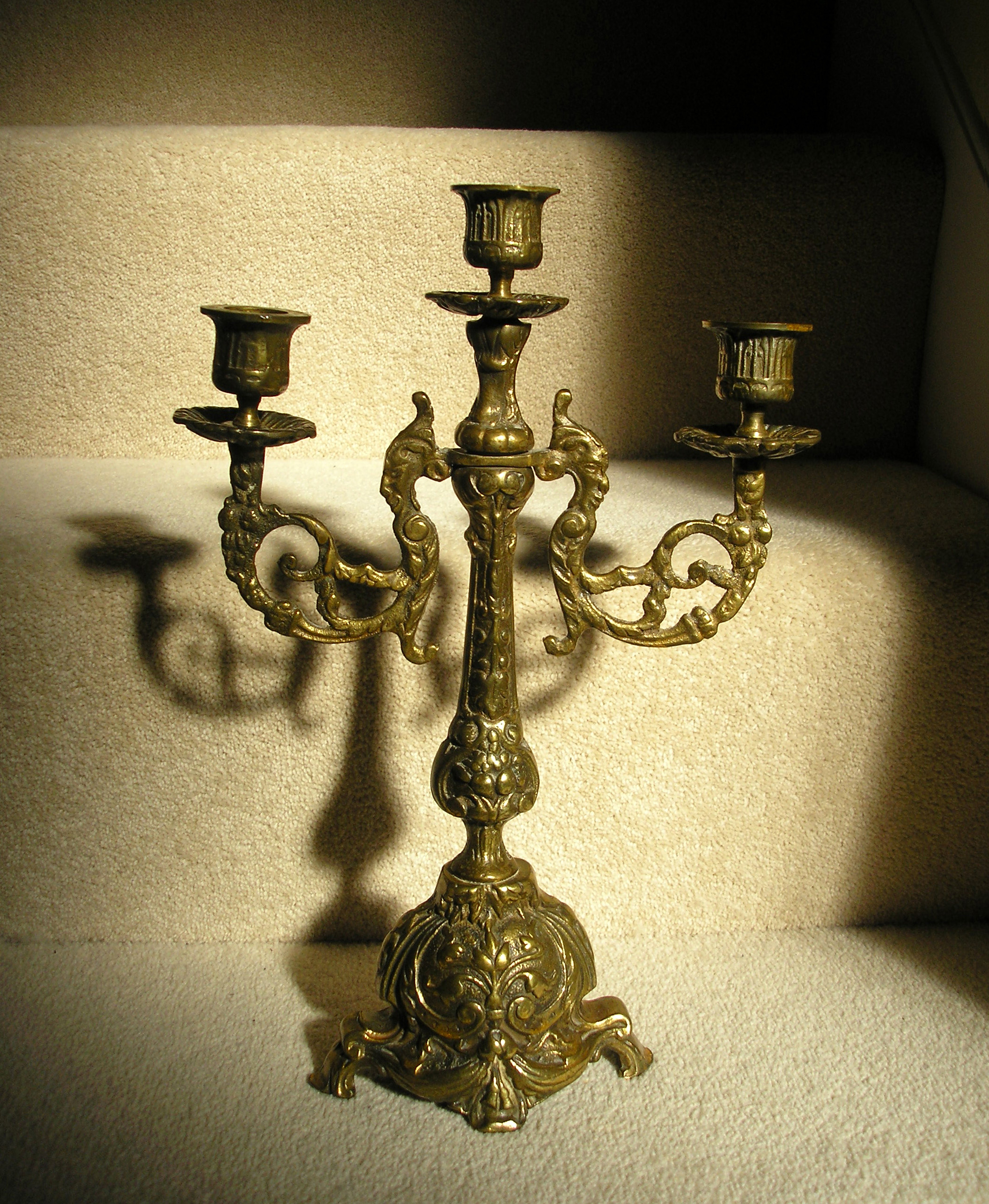 Three armed, decorative, brass candelabrum (commonly sometimes called a candelabra) in bright sunlight on a staircase.